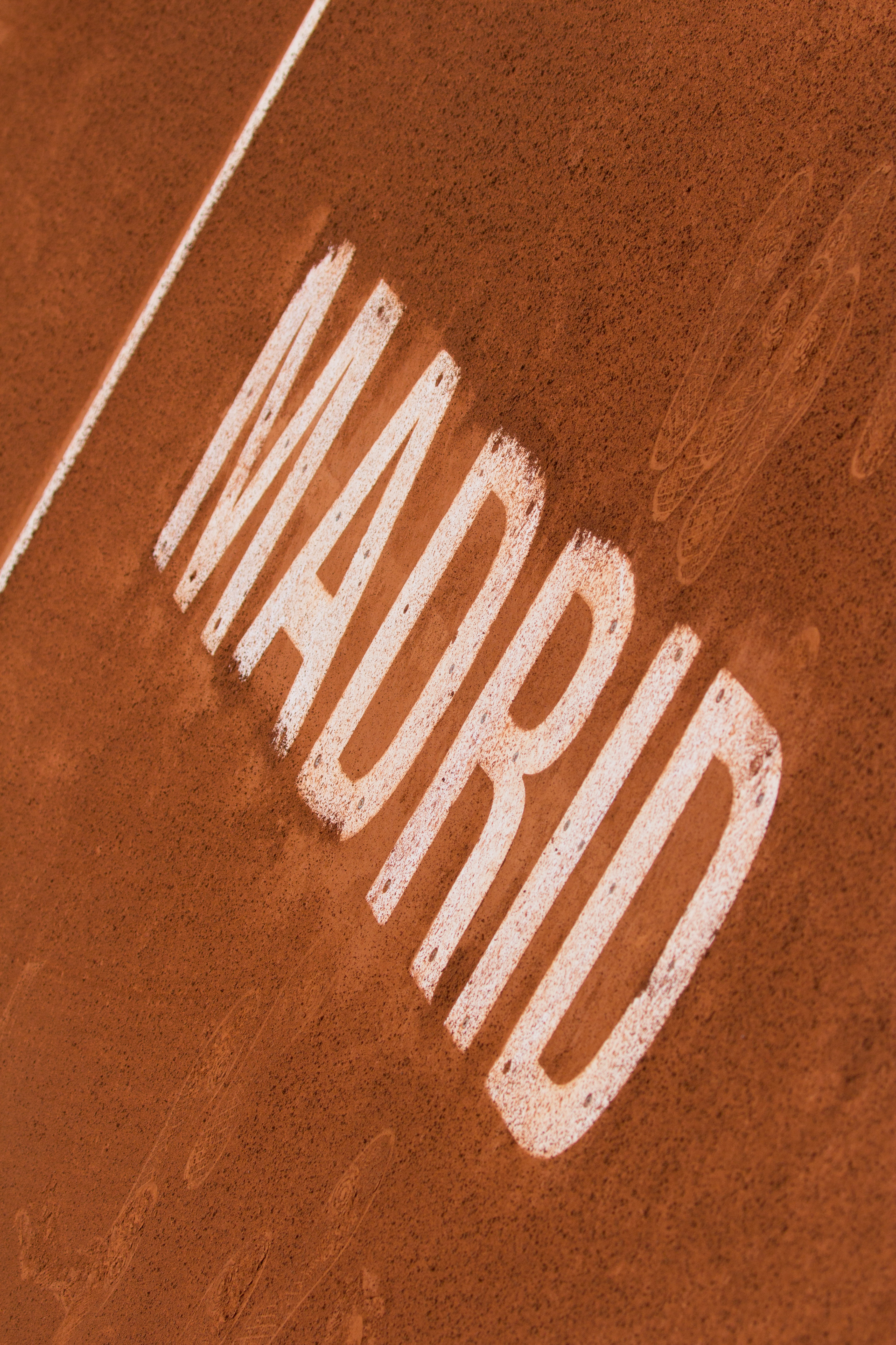 Madrid Open 2015, Spain.